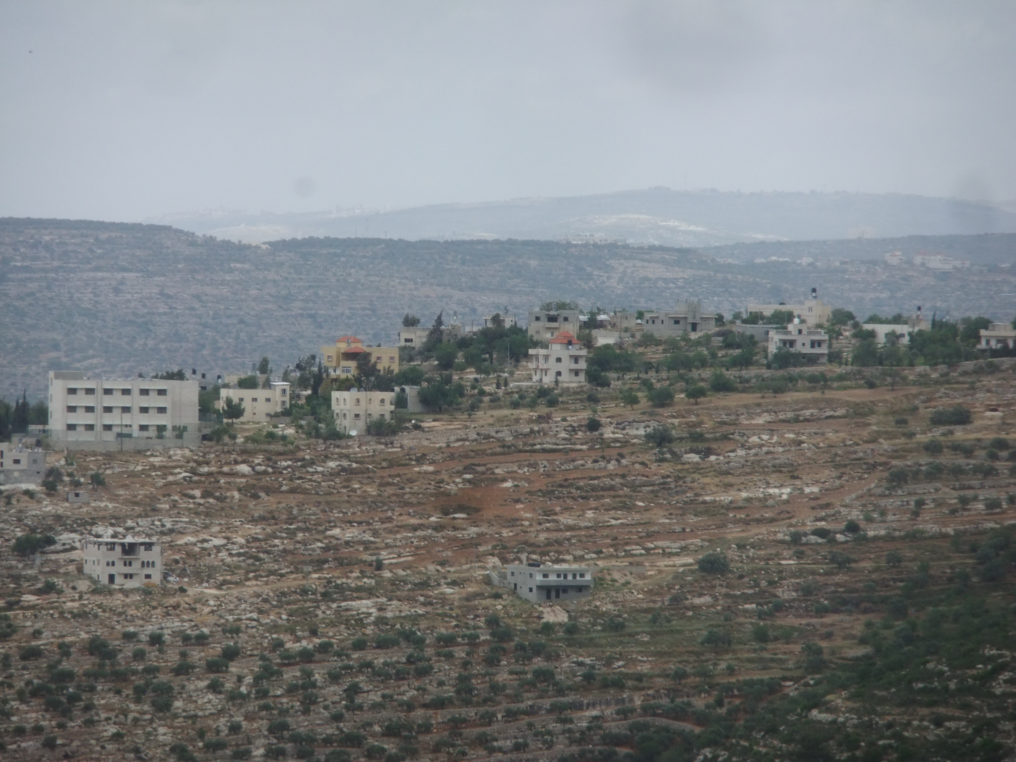 Deir as-Sudan from Um Safa forest